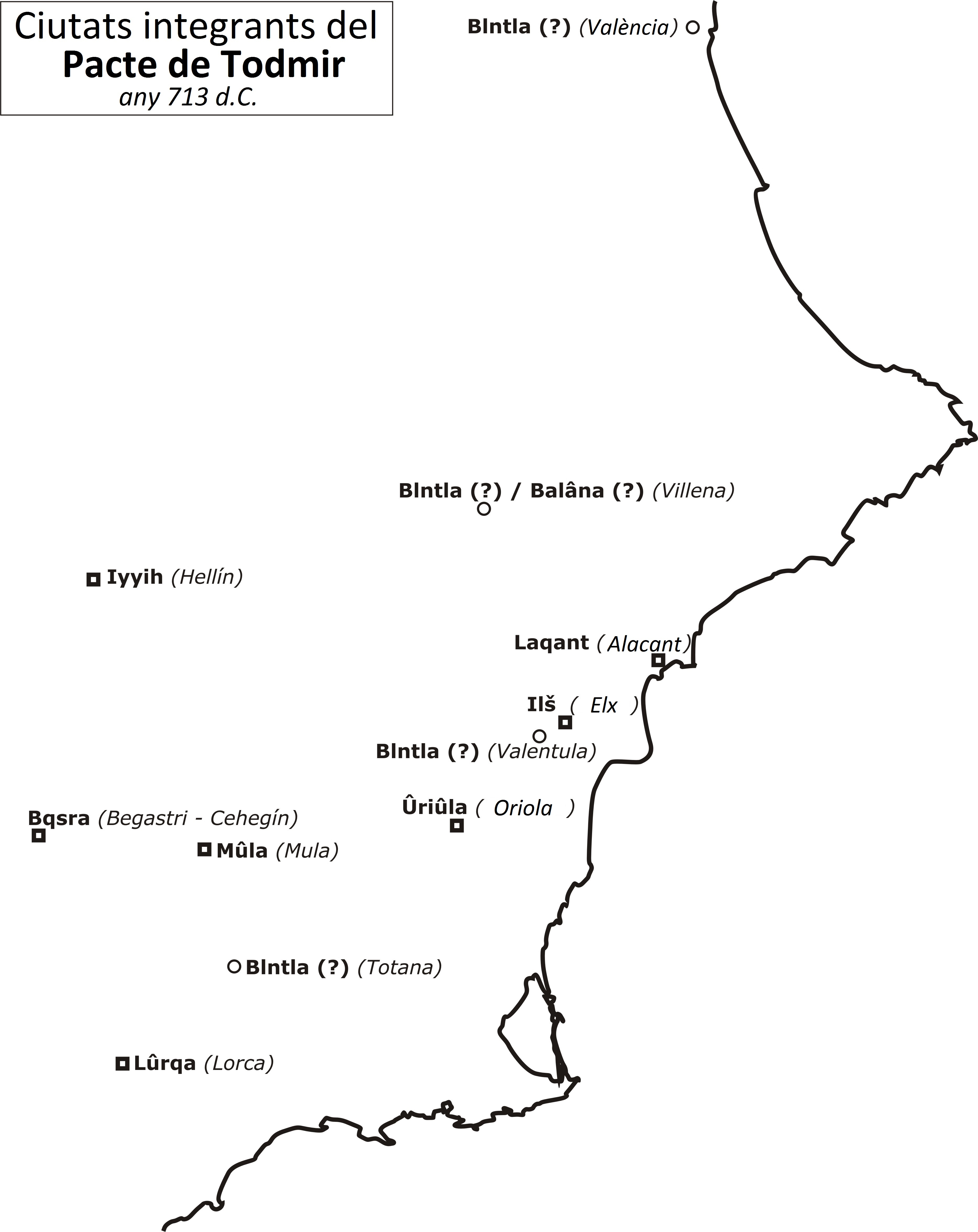 Location of the member cities of the Treaty of Orihuela, 713 A.D.